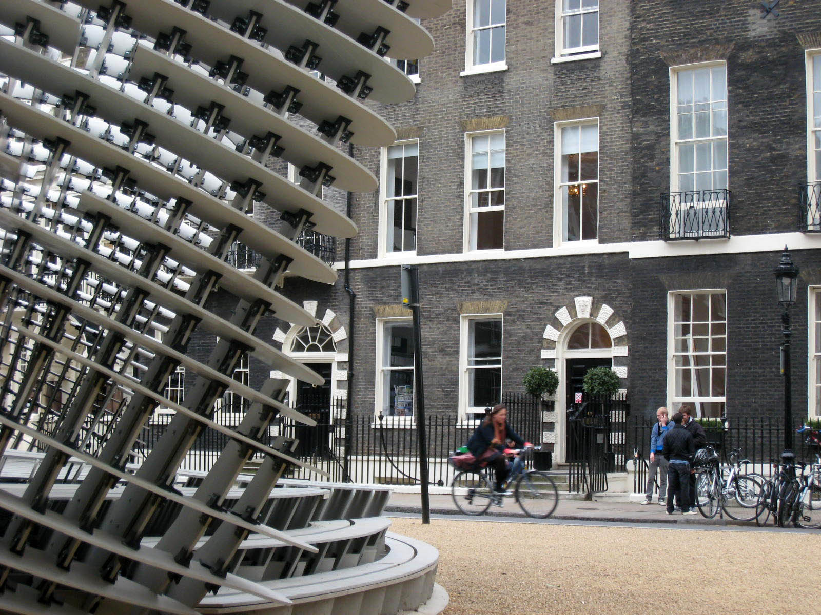 The Architectural Association School of Architecture in Bedford Square, London. In the foreground is the DRL10 Pavilion.